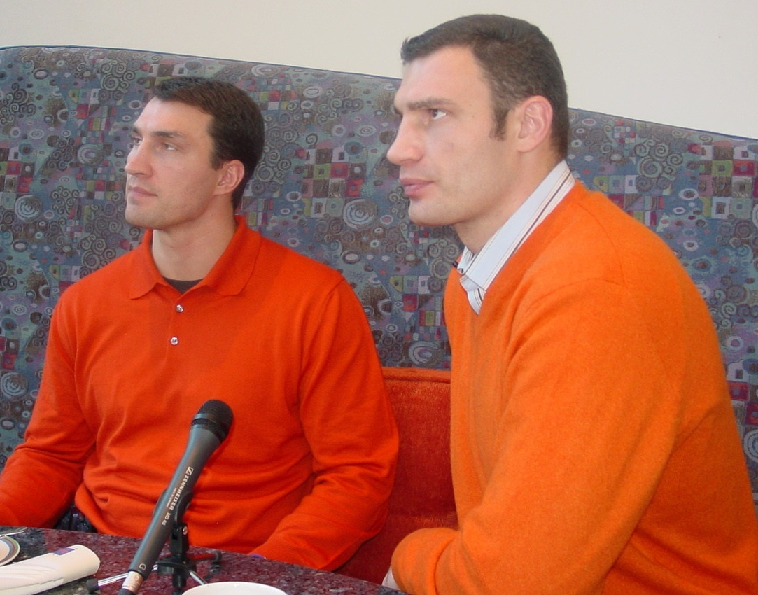 Wladimir (left) and Vitali Klitschko (right), Ukrainian boxers.